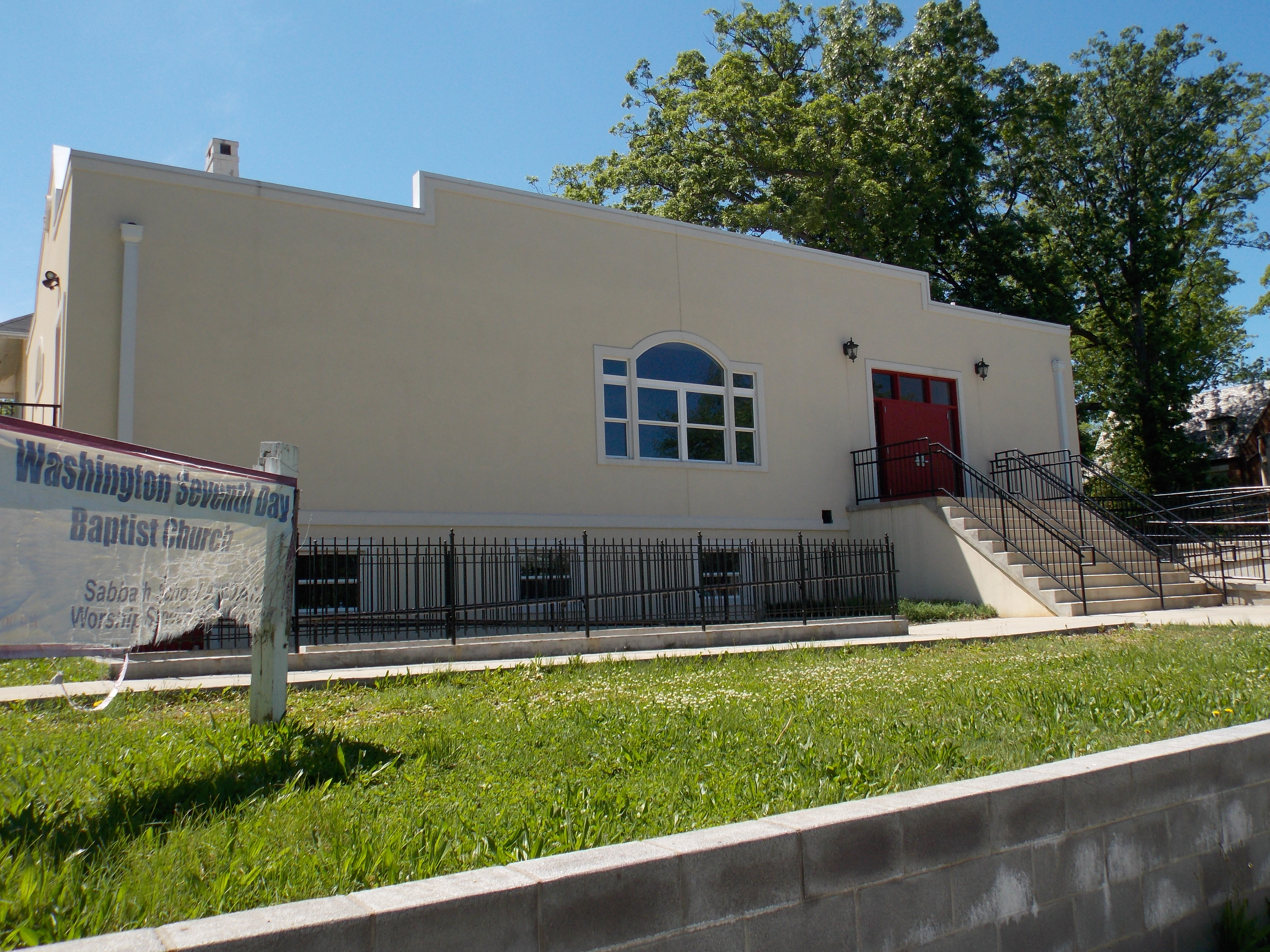 Washington Seventh Day Baptist Church on 16th St. NW, Washington, DC.